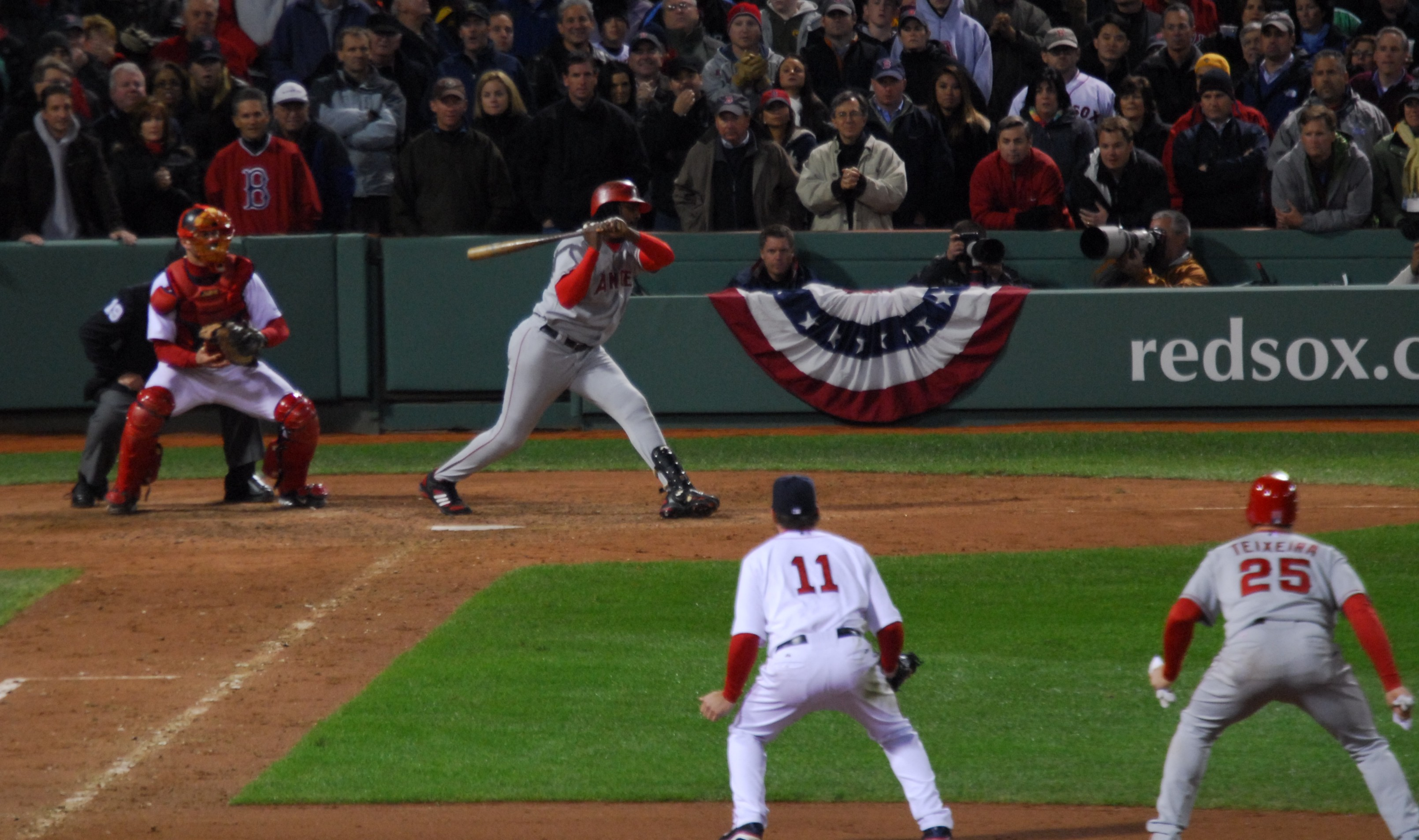 2008 American League Division Series